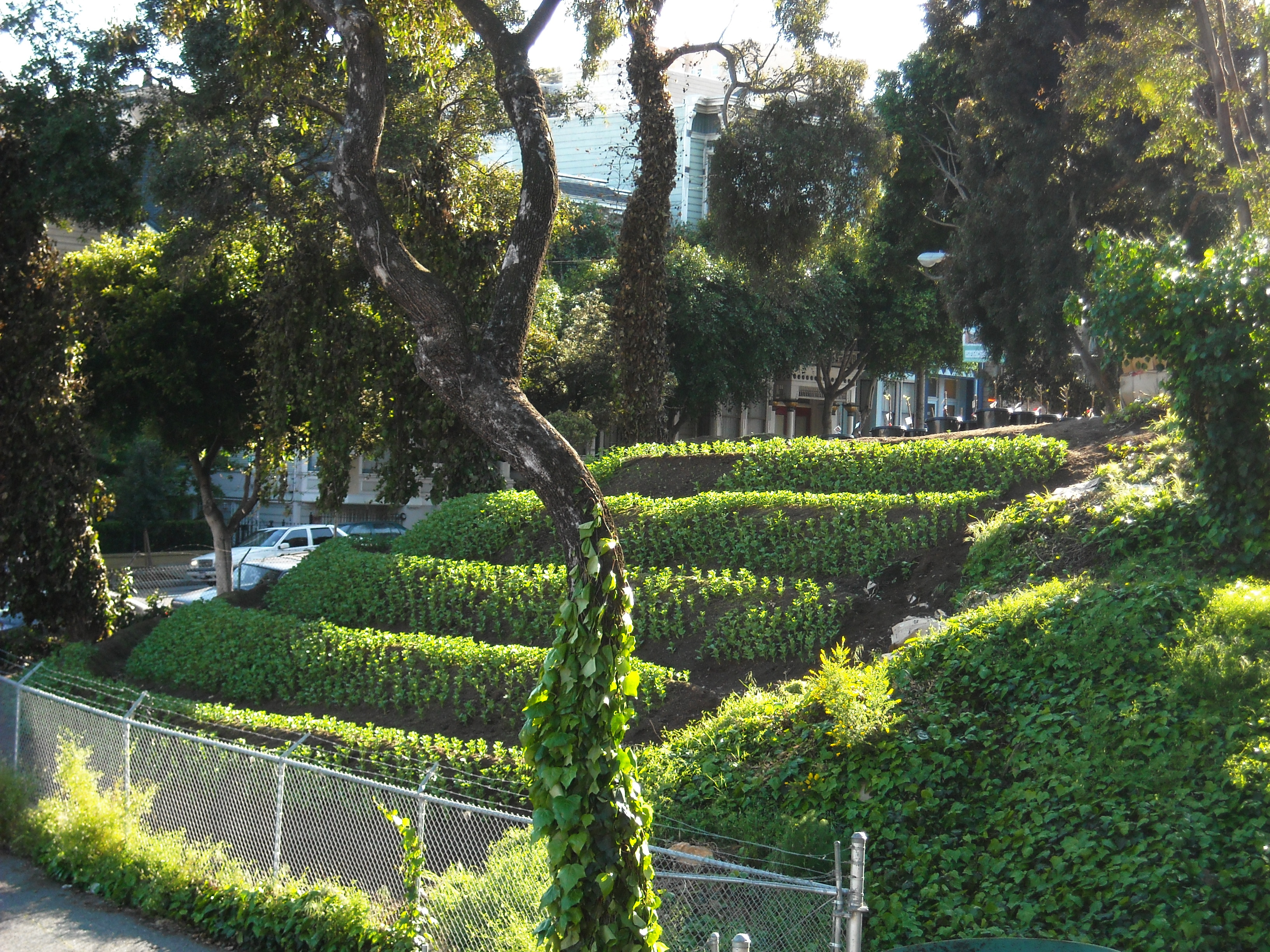 Berms of fava beans have been planted at Hayes Valley Farm, a community-built farm on the former Central freeway ramps of San Francisco. After the Loma Prieta earthquake of '89, the lot between Oak Street, Fell Street, Octavia and Laguna, was vacant for 21 years before the City authorized the site for interim use. The farm is a permaculture demonstration site, and all the soil has been upcycled from the urban waste stream. The farm has used 1,000 cubic yards of horse manure, 2,000 cubic yards of woodchips, and 100,000 pounds of cardboard to cover over an acre of its 2.2 acre lot.